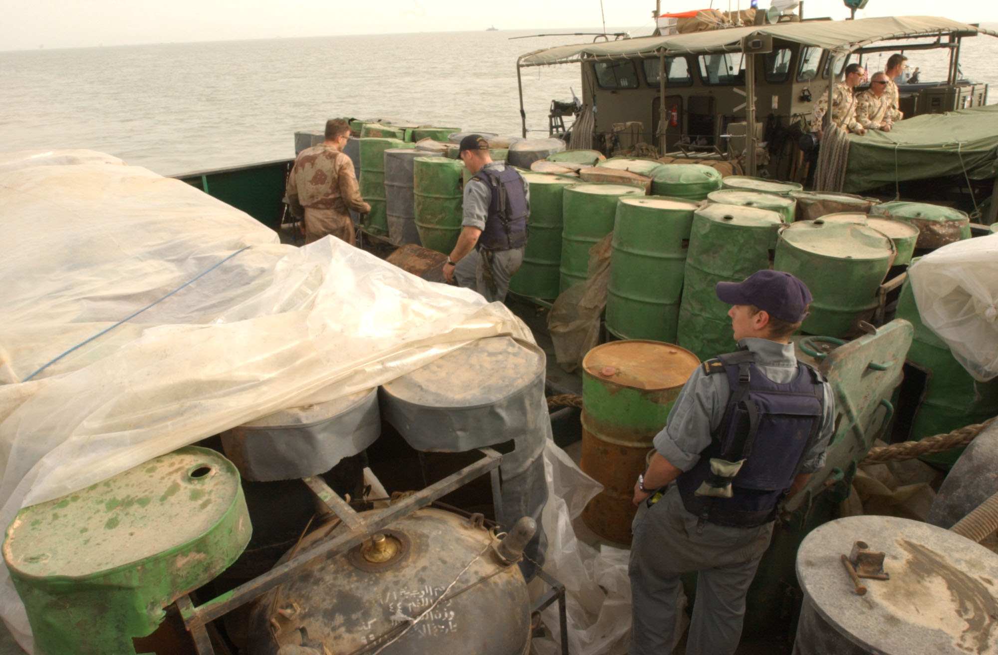 The Arabian Gulf (Mar. 21, 2003) -- Coalition Navy Explosive Ordnance Disposal (EOD) team members inspect camouflaged mines hidden inside oil barrels on the deck of an Iraqi shipping barge. The shipping barge was intercepted and inspected by Coalition Maritime Interdiction Operation (MIO) and Vessel Board Search and Seizure (VBSS) teams from the patrol craft USS Chinook (PC 9) in the early hours of Operation Iraqi Freedom. Operation Iraqi Freedom is the multi-national coalition effort to liberate the Iraqi people, eliminate Iraq’s weapons of mass destruction and end the regime of Saddam Hussein. U.S. Navy photo by Photographer’s Mate 2nd Class Richard Moore. (RELEASED)